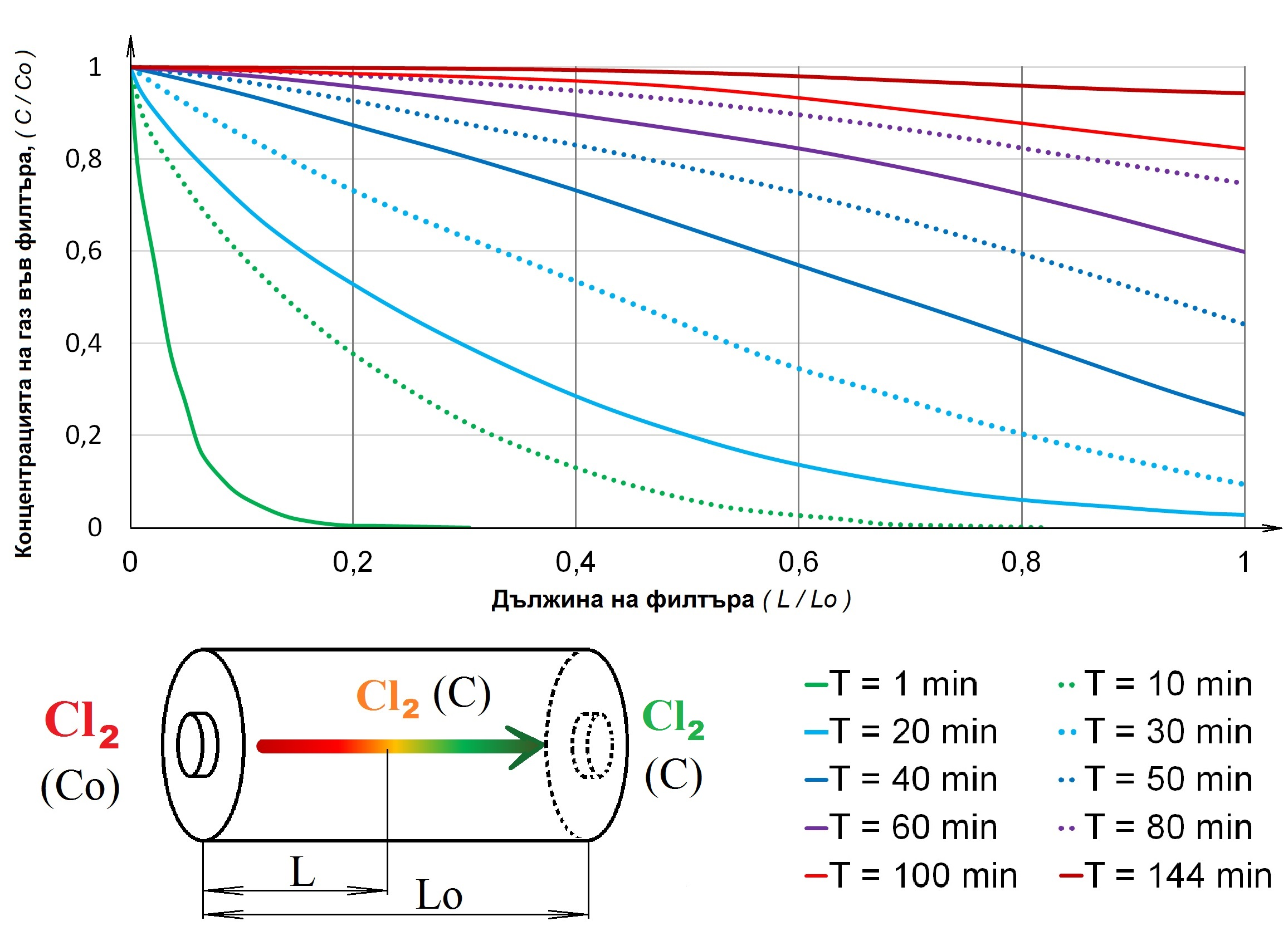 The change in chlorine concentration during the movement of contaminated air through a canister of a gas mask. This drawing is made on the basis of an illustration from a textbook (Dubinin, Mikhail; Chmutov K. (1939). Физико-химические основы противогазного дела // Physico-chemical bases of development and application of gas masks (in Russian). Moscow: Military Academy of Chemical Defence named KE Voroshilov) p. 119, fig. 53.